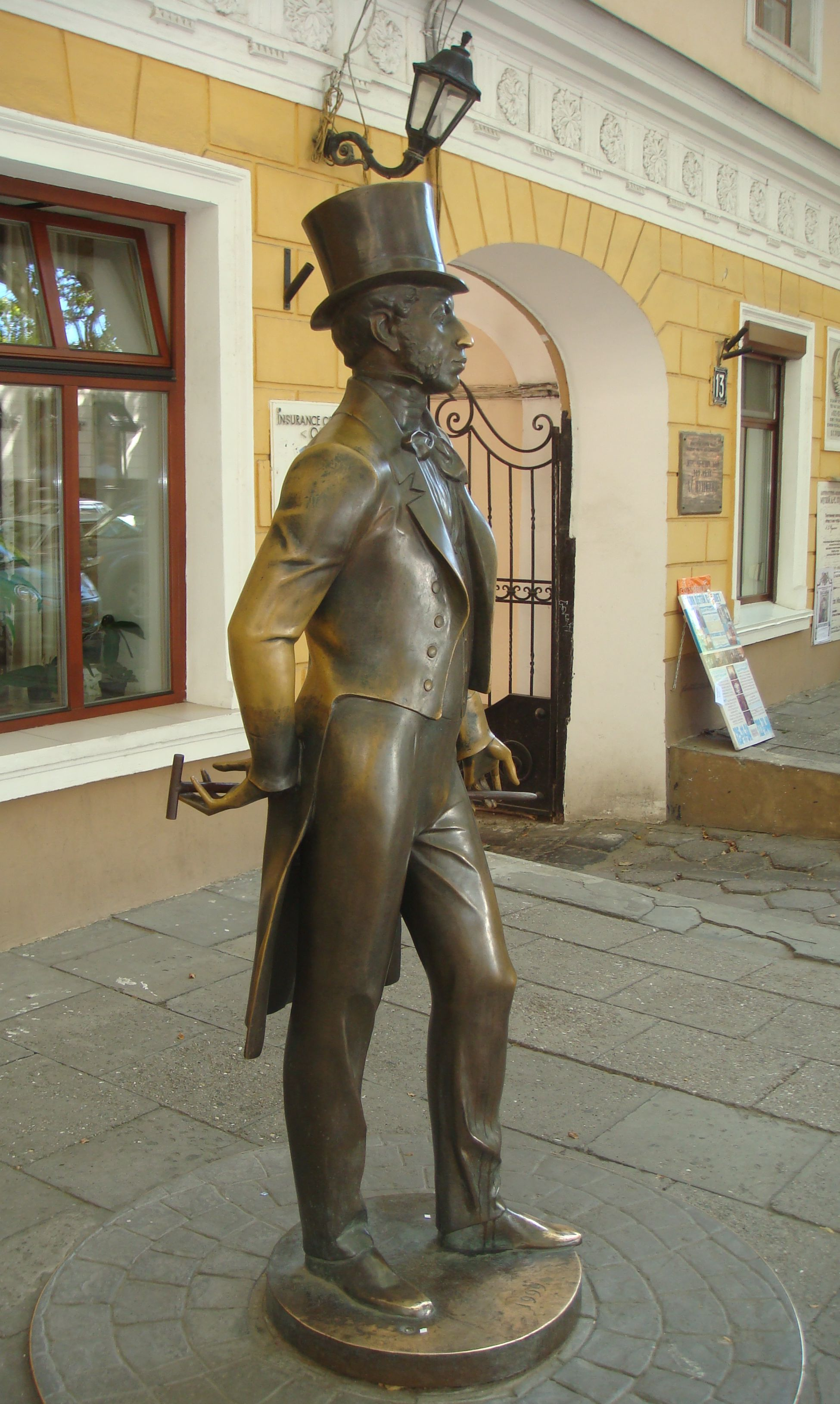 Statue of Russian poet Alexander Pushkin in Odessa, Pushkinskaya street # 13. Erected in 1999.